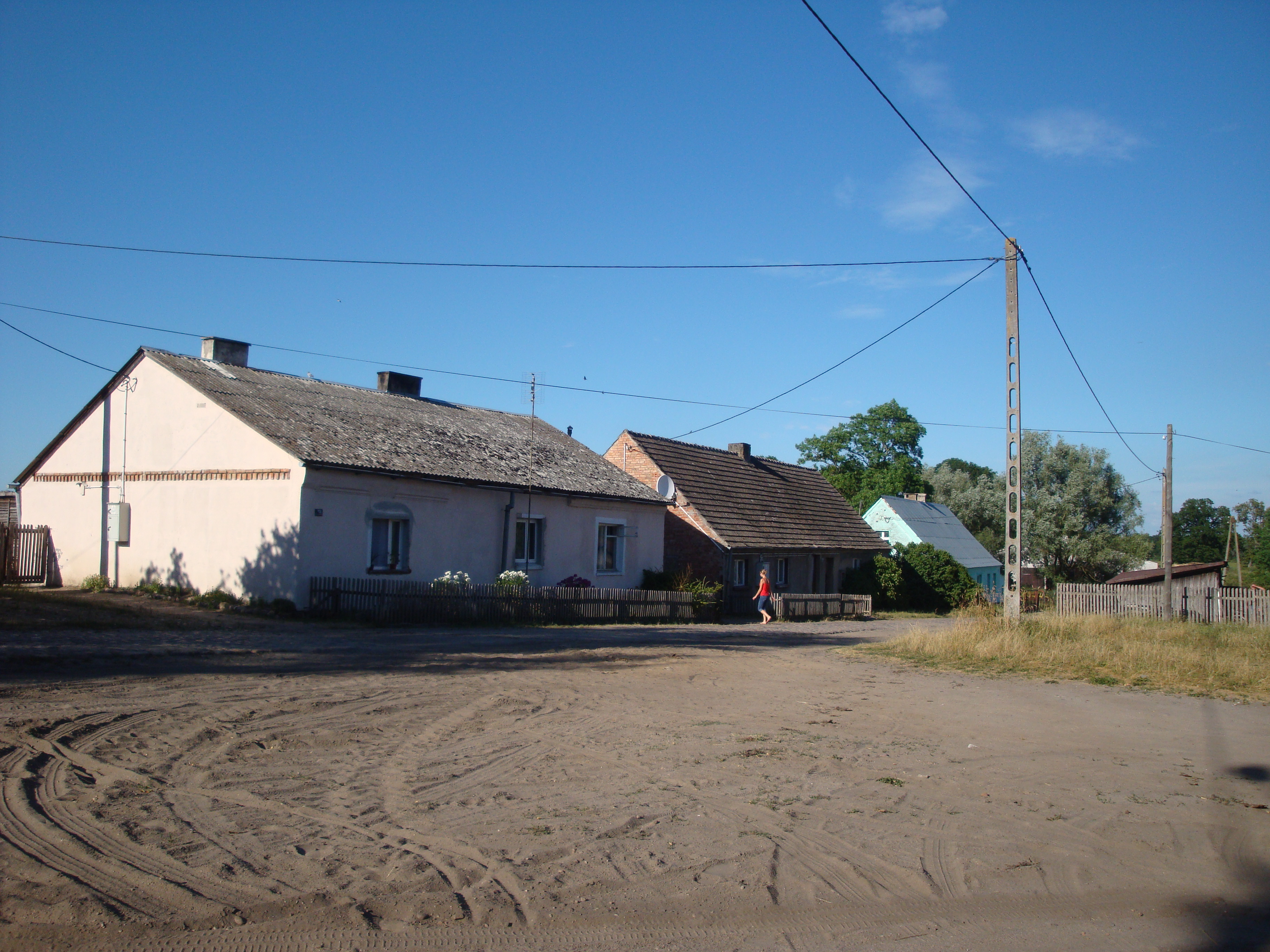 Czerwieniec-village in Pomeranian Voivodeship, Poland.